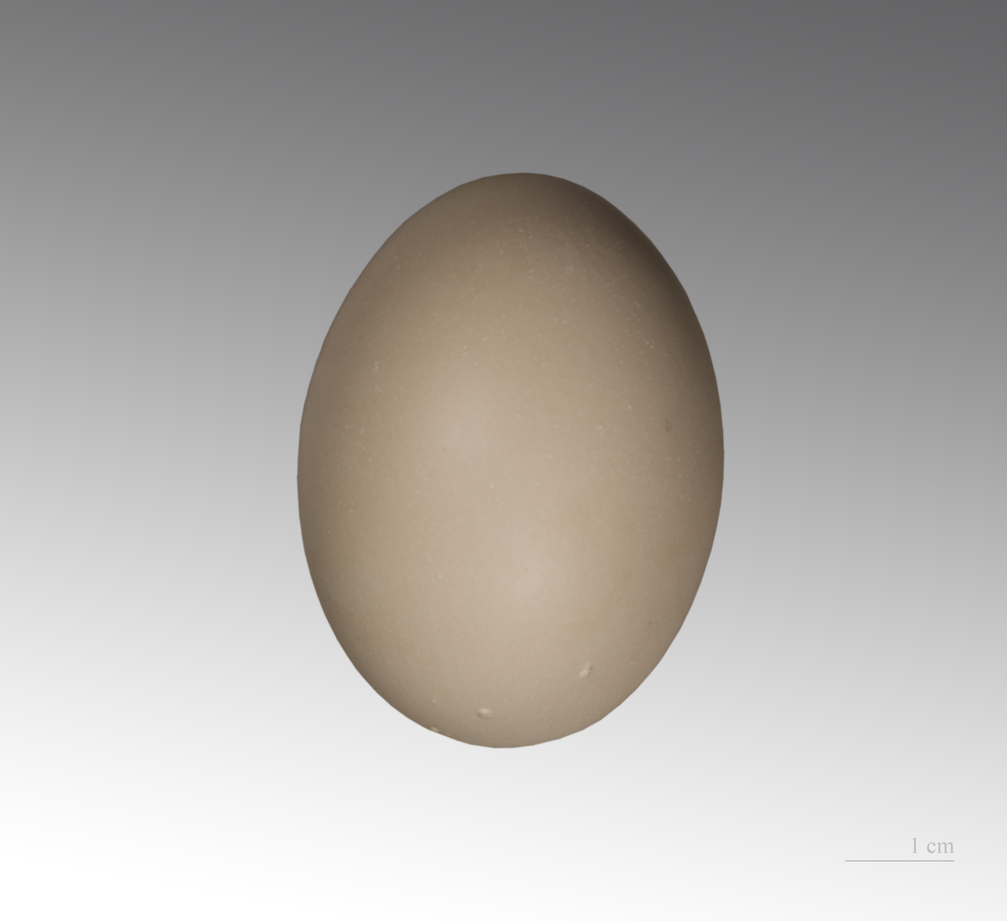 Egg of Grey Peacock-Pheasant. Collection of Jacques Perrin de Brichambaut. Locality: Jardin des Plantes Paris France